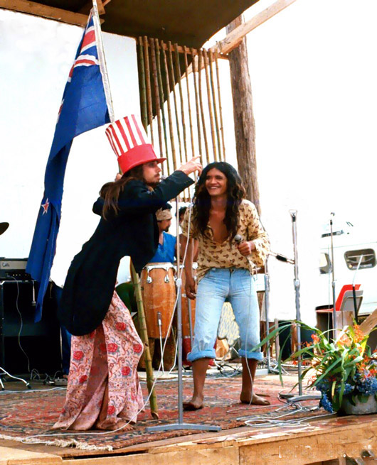 These photoes were taken by the official Nambassa photographer at the 1978 Nambassa Winter Show in New Zealand. Uploaded by Mombas 09:13, 3 May 2007 (UTC) Summary Terms of Use: 1/ All users of this image are required to attribute this work to "Nambassa Trust and Peter Terry" and the URL: " " is to accompany all use. 2/ Attribution. You must attribute the work in the manner specified by the author or licensor. 3/ For any reuse or distribution, you must make clear to others the license terms of this work. Statement by Nambassa Trust and Peter Terry